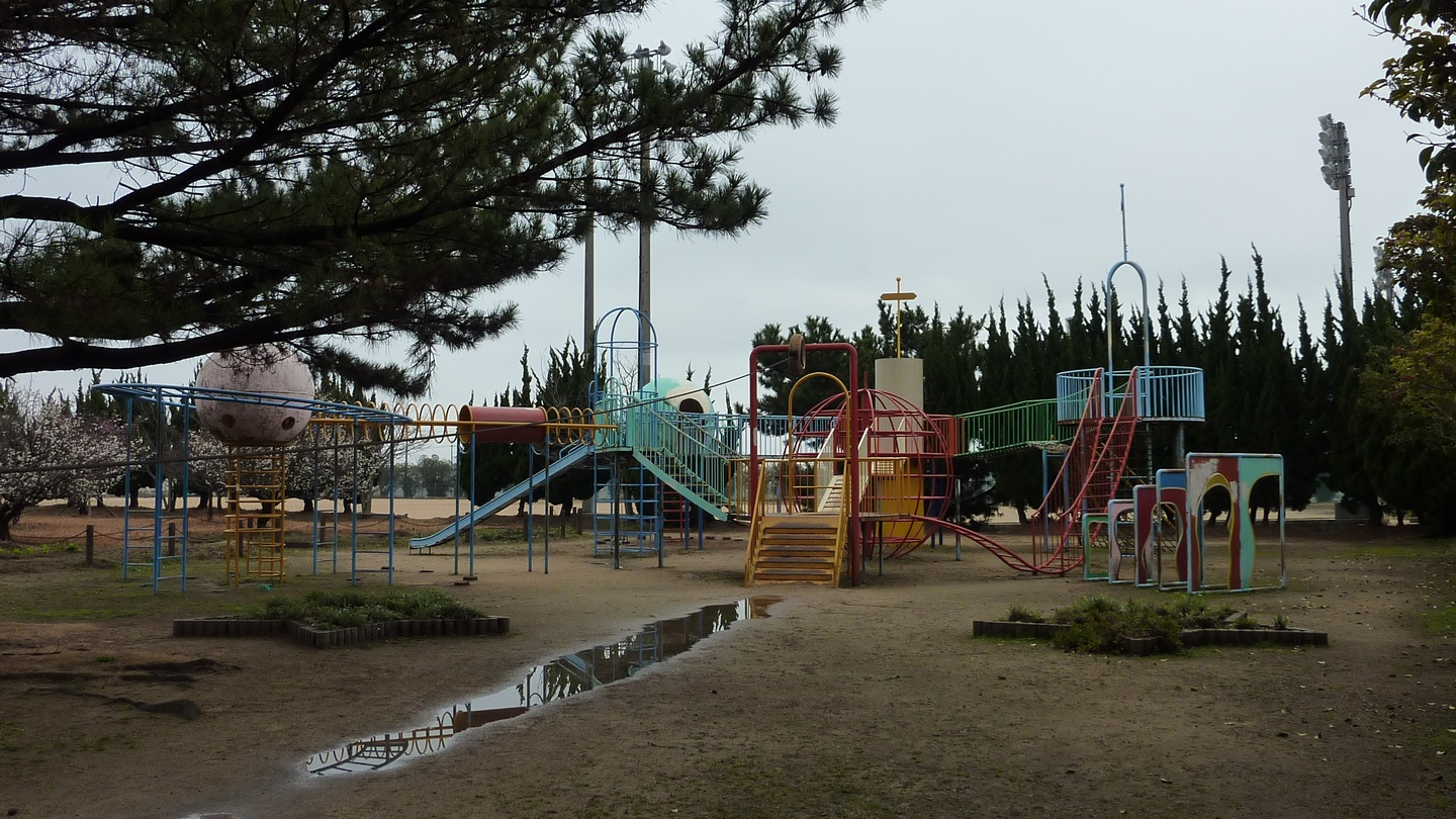 The Itone District Park in Sanyo-Onoda City, Yamaguchi, Japan.